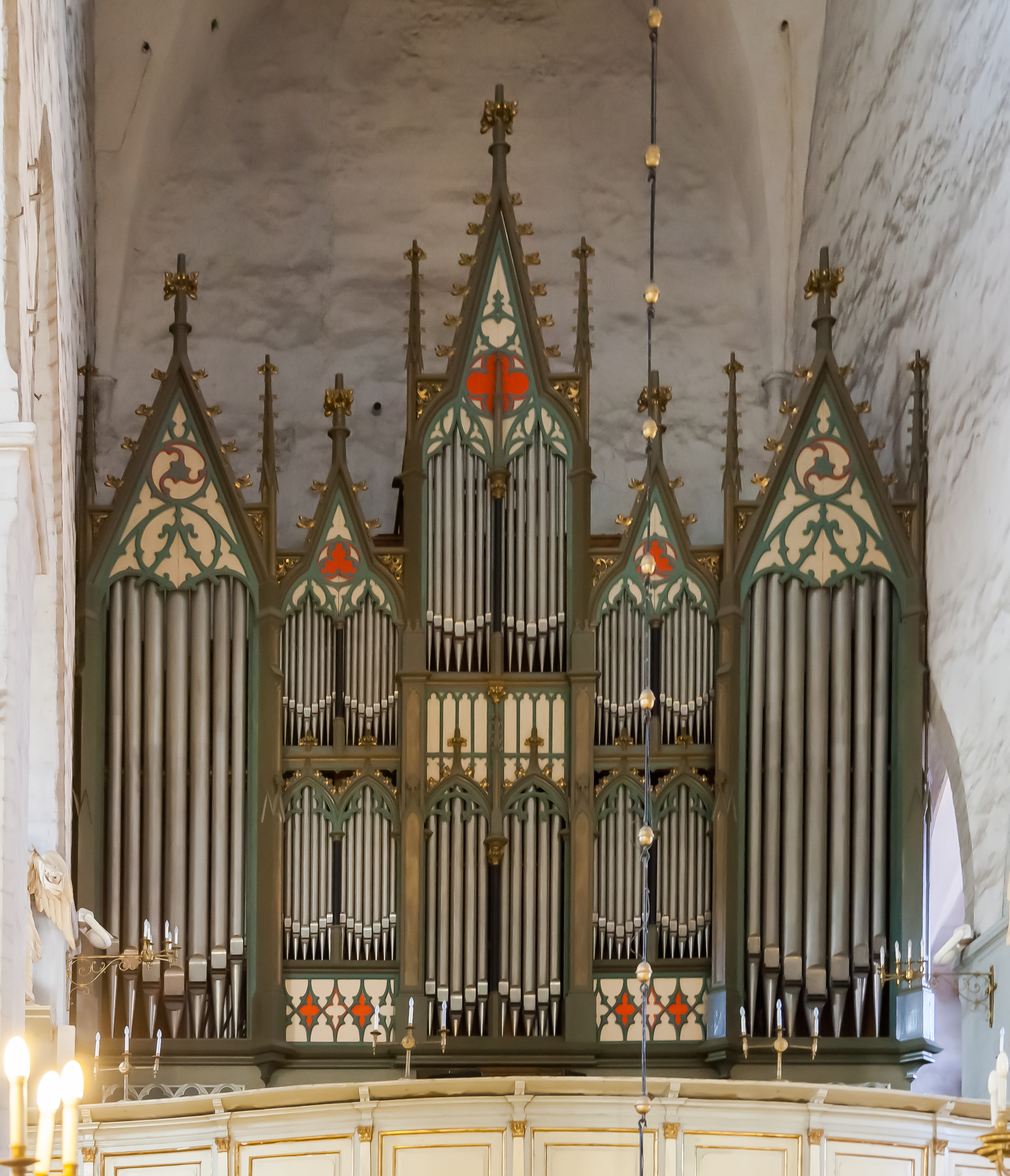 Pipe organ of cathedral of Saint Mary, Tallinn, Estonia